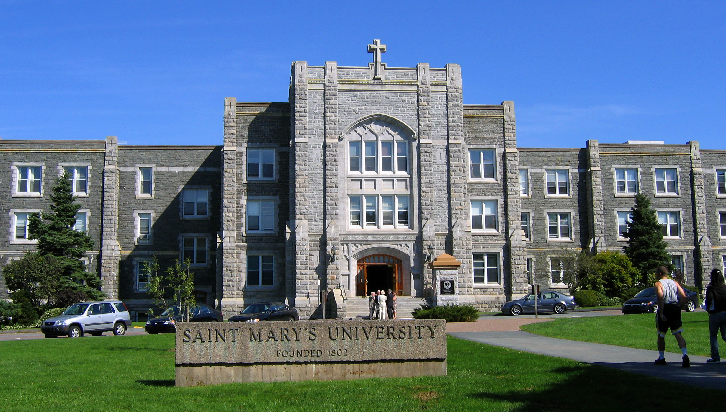 Saint Mary's University, main entrance